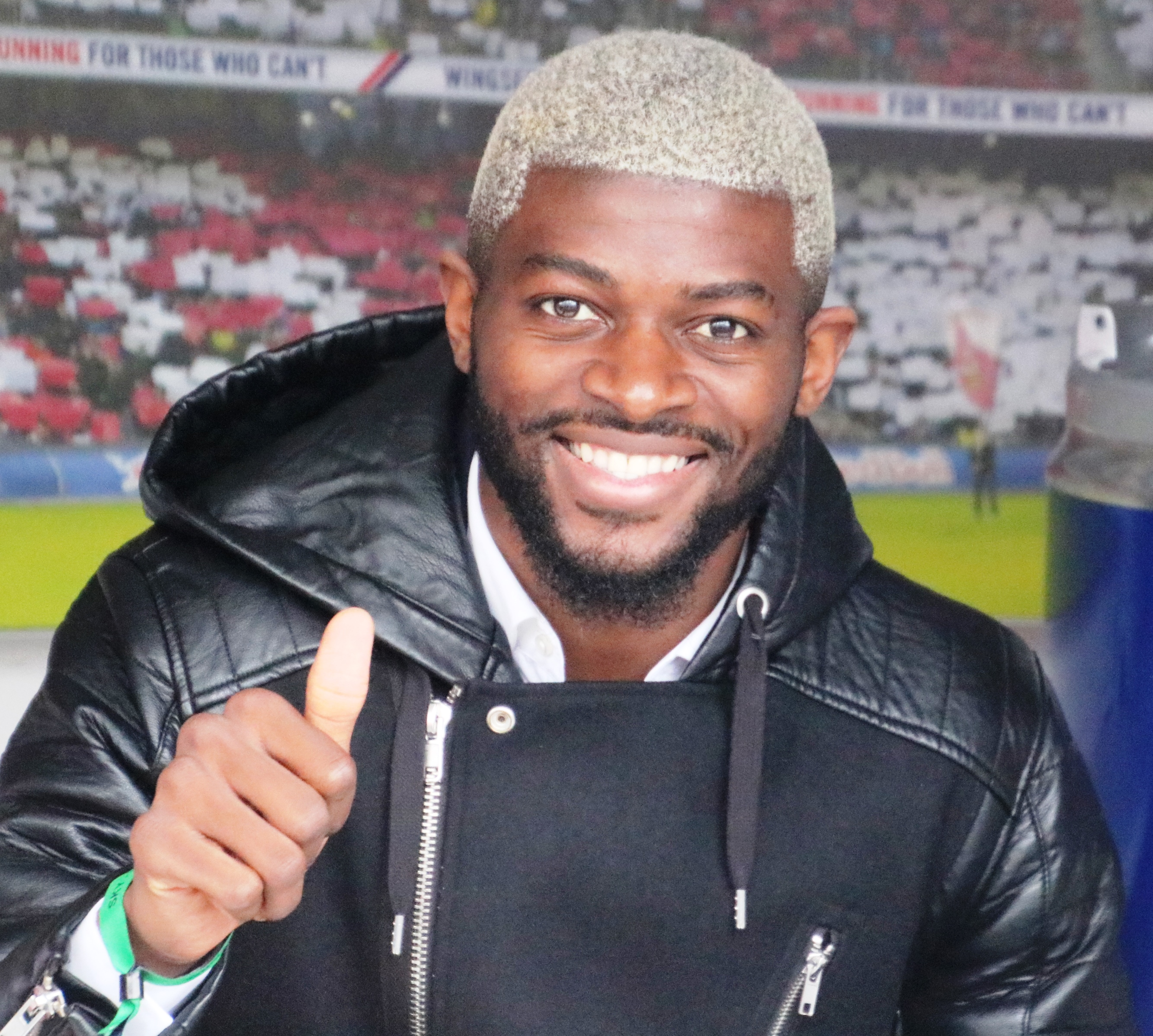 Austria Bundesliga league match